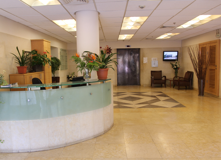 Lobby at the Alzheimer Center